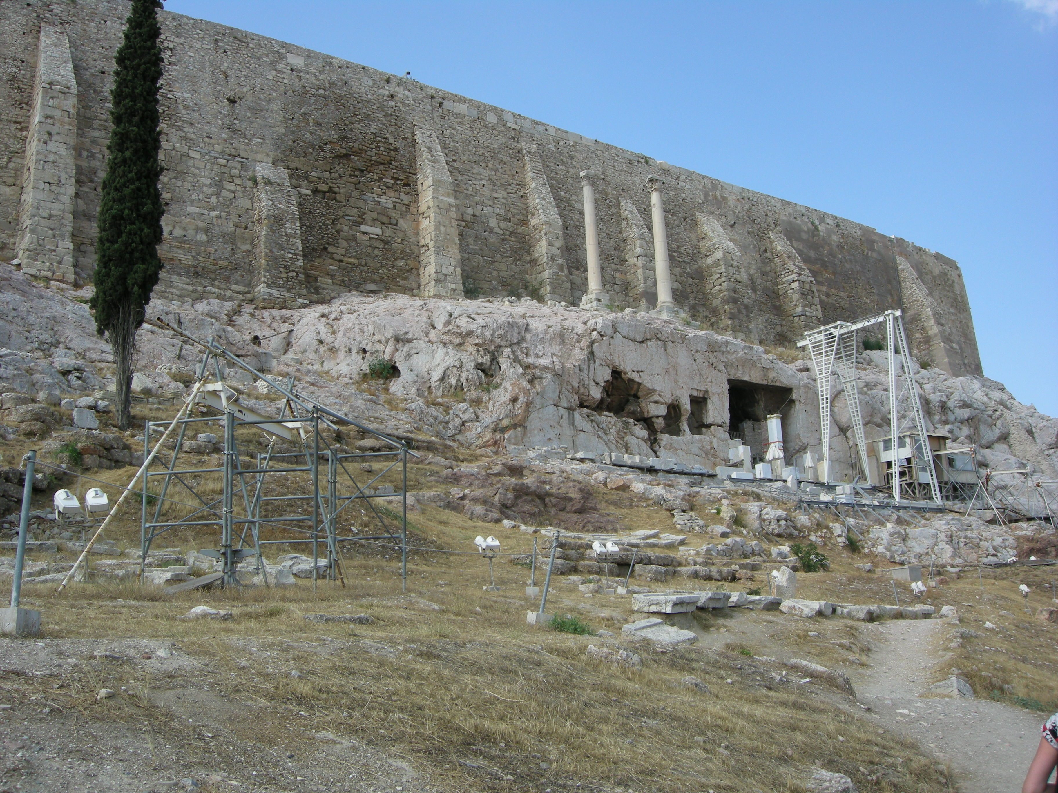 Walls of Acropolis of Athens